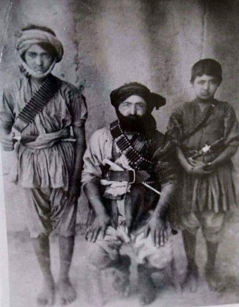 A picture of Babrak Khan, who died in 1924 or 1925, with 2 of his children. The direct source is from Facebook but another, more reliable source has the same picture in a lower resolution - The child on the left can be identified as Mazrak Zadran - The facebook source calls one of the children "زمرک" - which google translate renders as "Zimmerk" or "Zamarak". Furthermore, the child on the left is clearly the eldest, in line with sources that state that Mazrak was Babrak's eldest son.